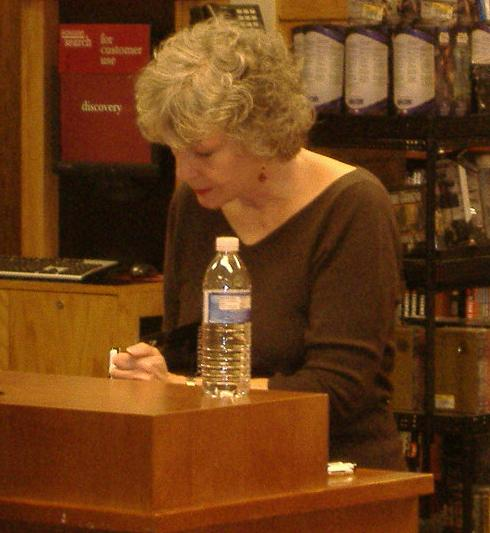 Sue Grafton. Picture taken at the Borders bookstore on Shelbyville Road in Saint Matthews, Kentucky.